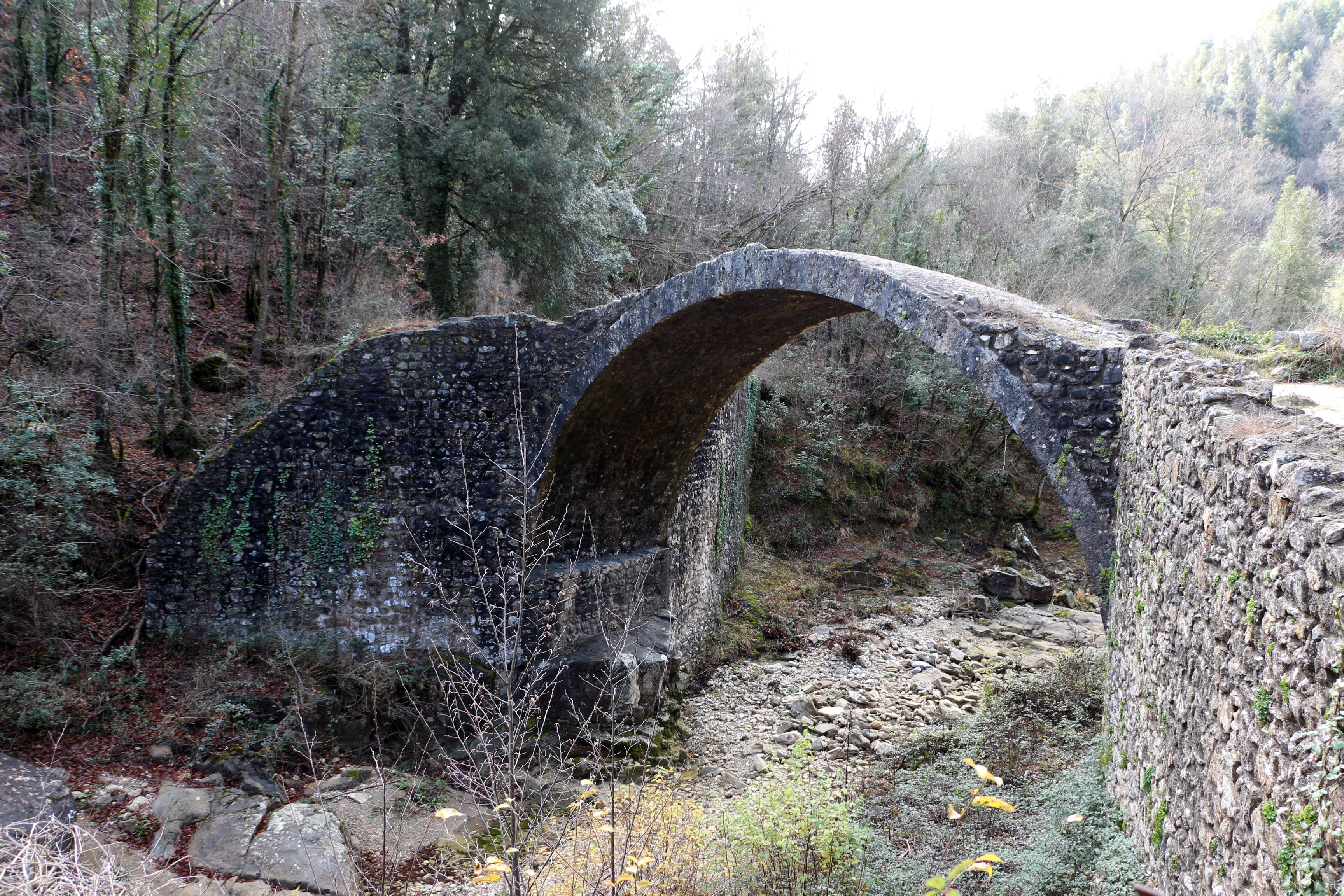 Ponte della Pia (Rosia, Sovicille)